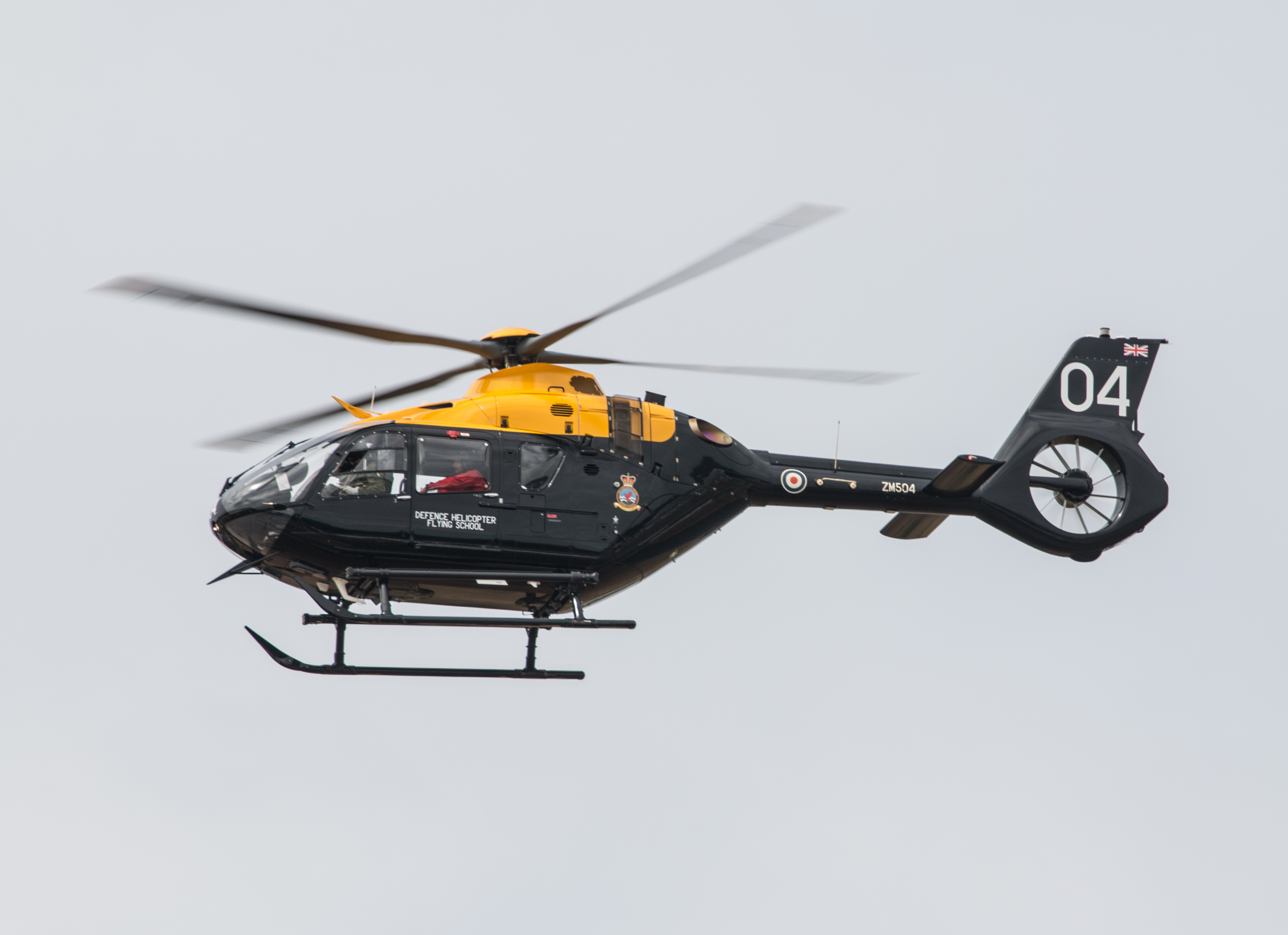 Farnborough International Airshow 2018, Hampshire